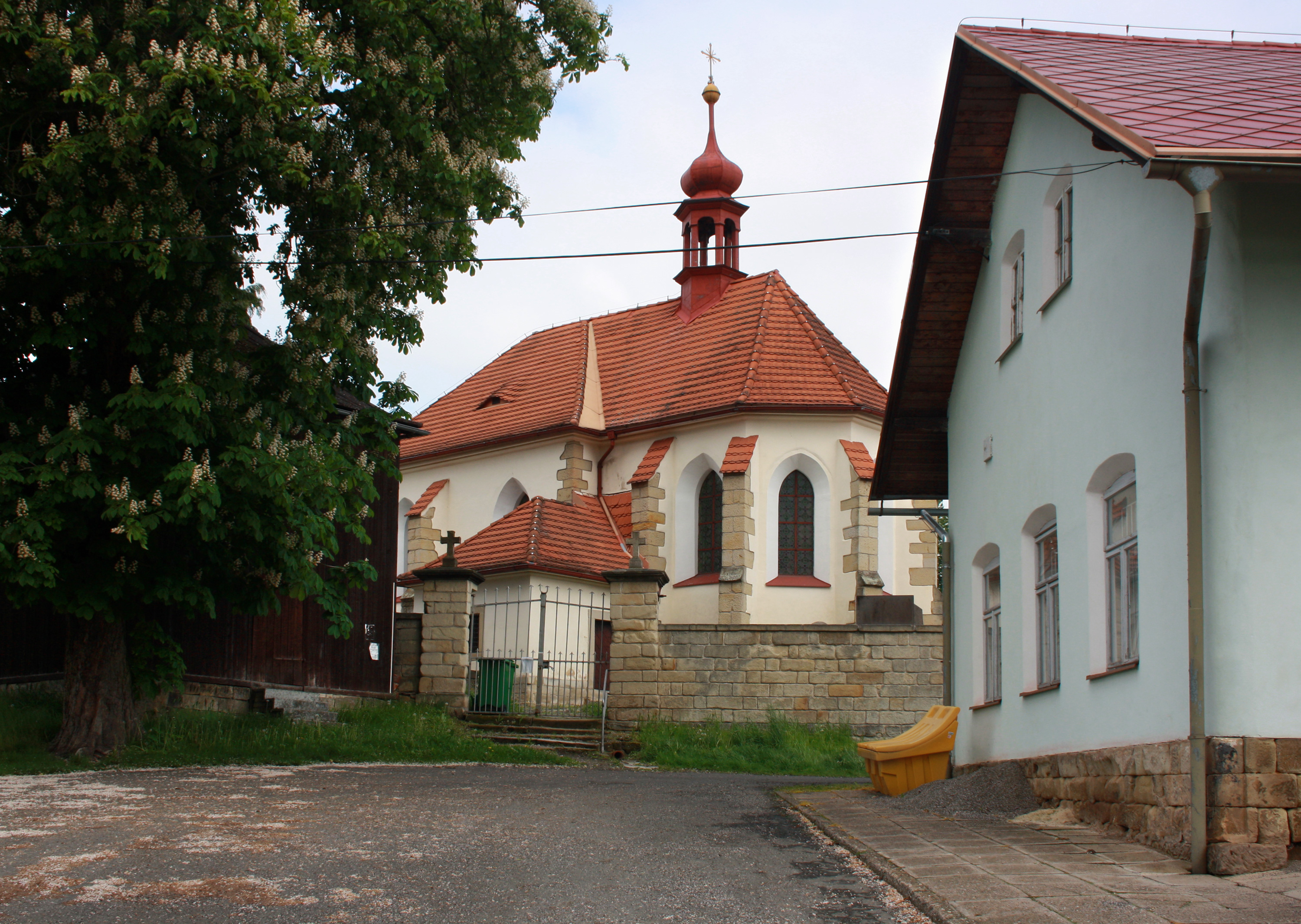 Church in Údrnice village, Czech Republic